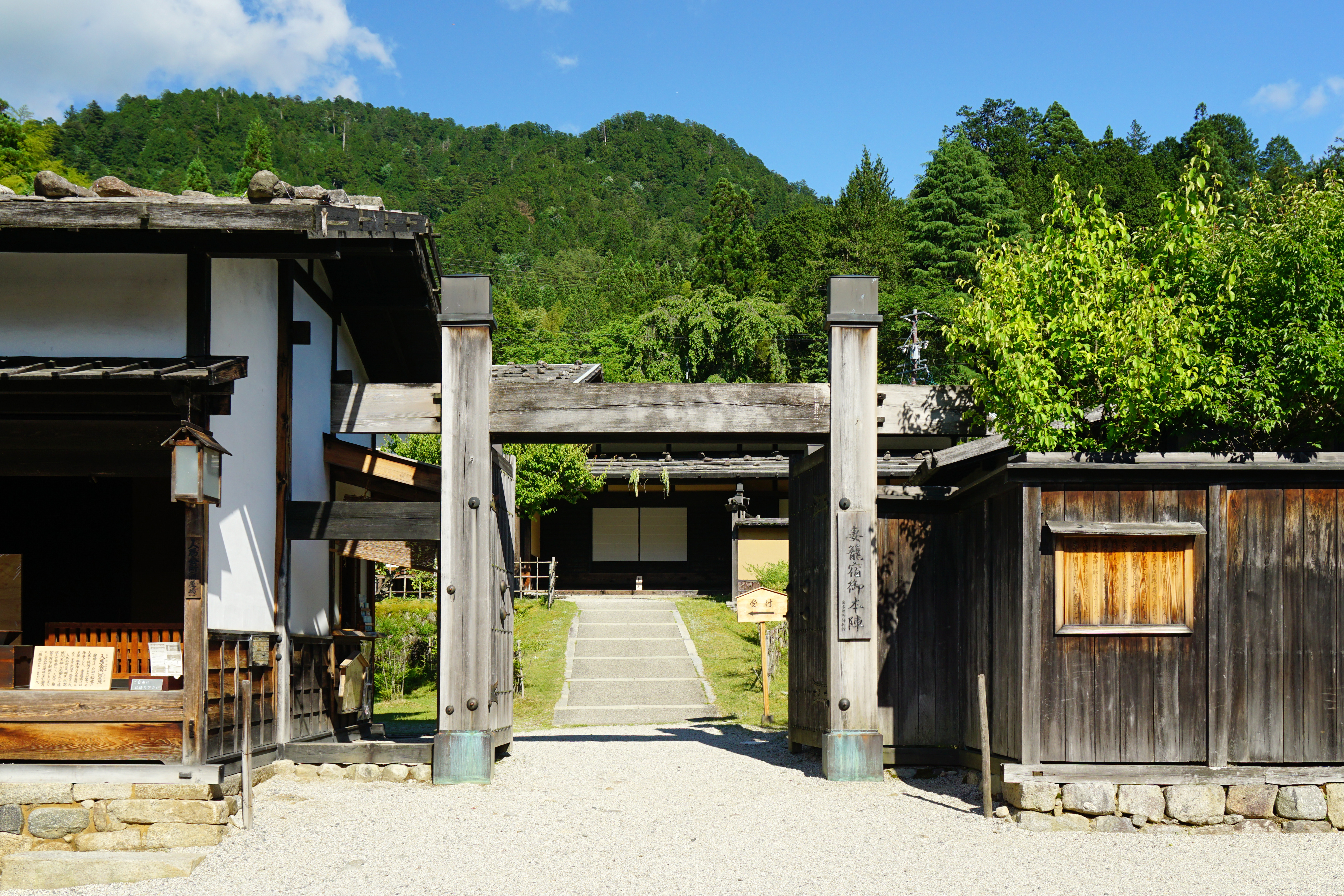 At Tsumago-juku in Nagiso, Nagano prefecture, Japan